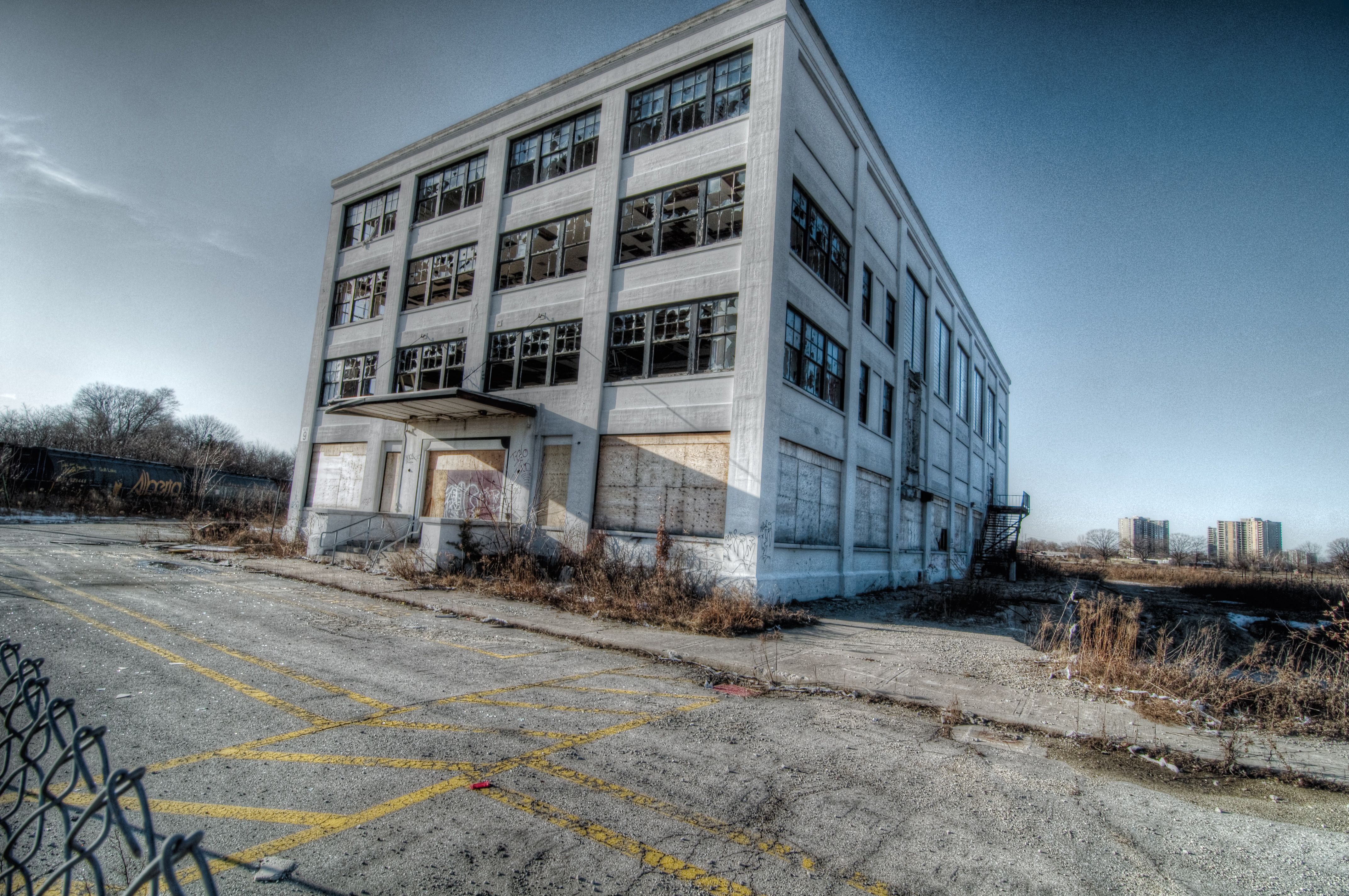 The only remaining building from a demolished Kodak factory complex, Building #9 apparently was the employee building, including a gym/auditorium.